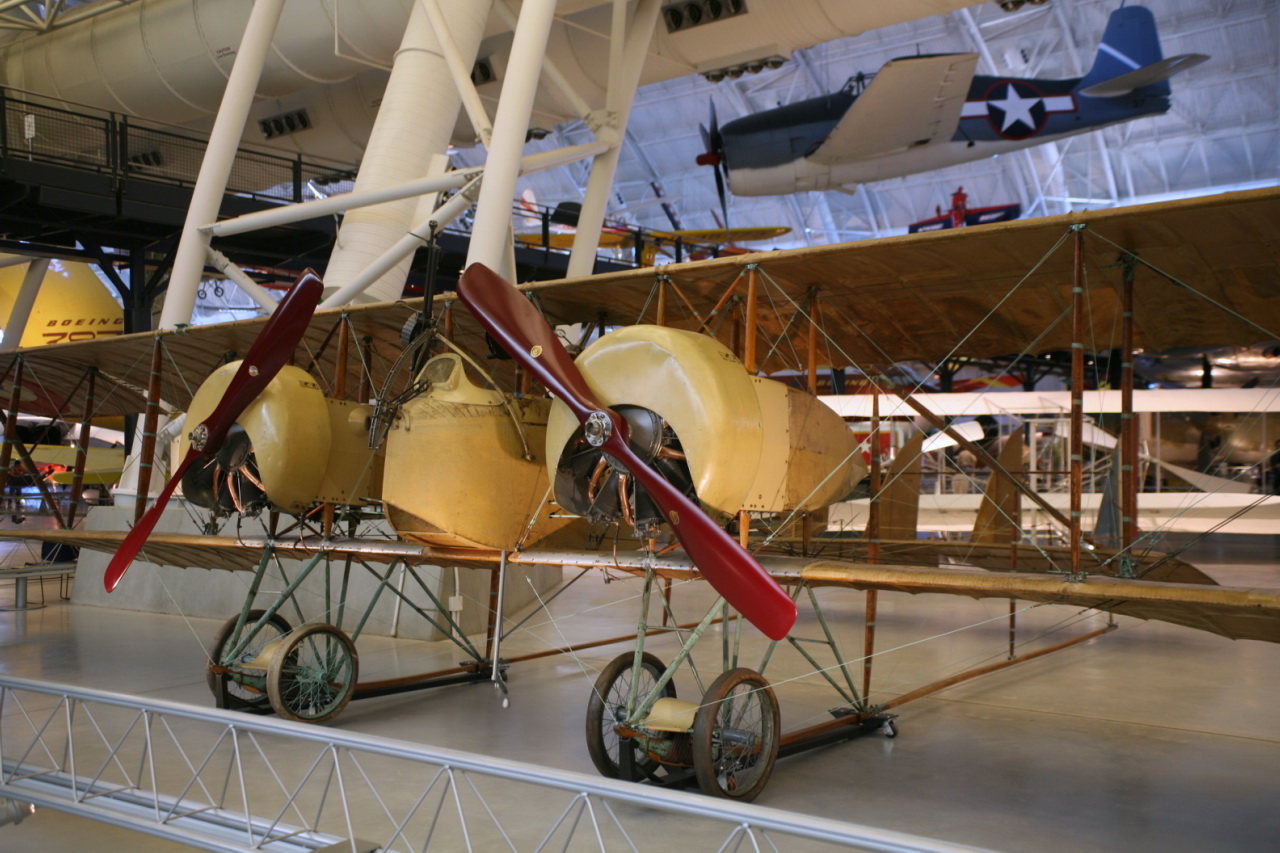 The 1917 French twin-engine Caudron G.4 has great significance as an early light bomber and reconnaissance aircraft. It was a principal type used when these critical air power missions were being conceived and pioneered in World War I. Although fighter aircraft frequently gain greater attention, the most influential role of aviation in the First World War was reconnaissance. The extensive deployment of the Caudron G.4 in this role make it an especially important early military aircraft.